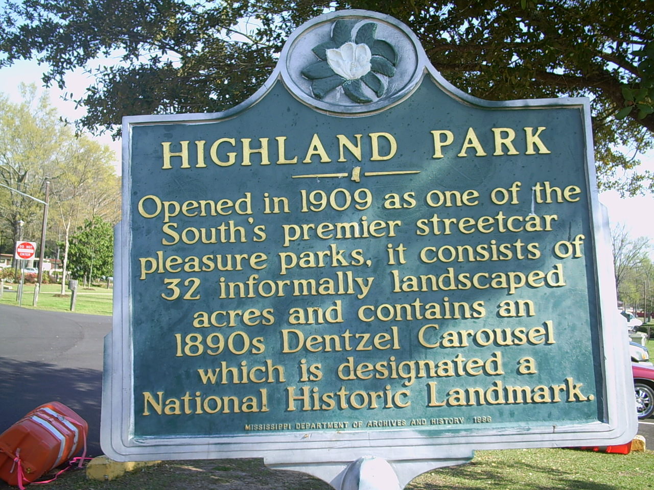 Historic sign marking Highland Park as a historic site